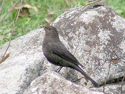 Cropped version of File:Tibetan Blackbird (Turdus maximus) 1.jpg